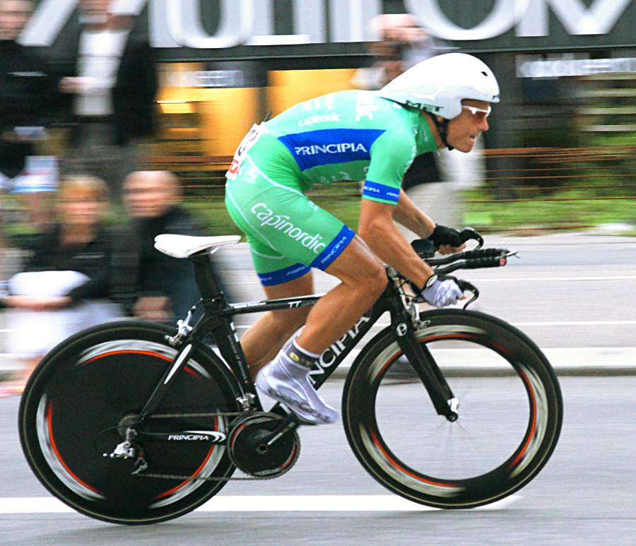 Martin Pedersen (DEN) during Tour of Denmark/Post Danmark Rundt 2009, stage 5 (timetrial 15,5 km)